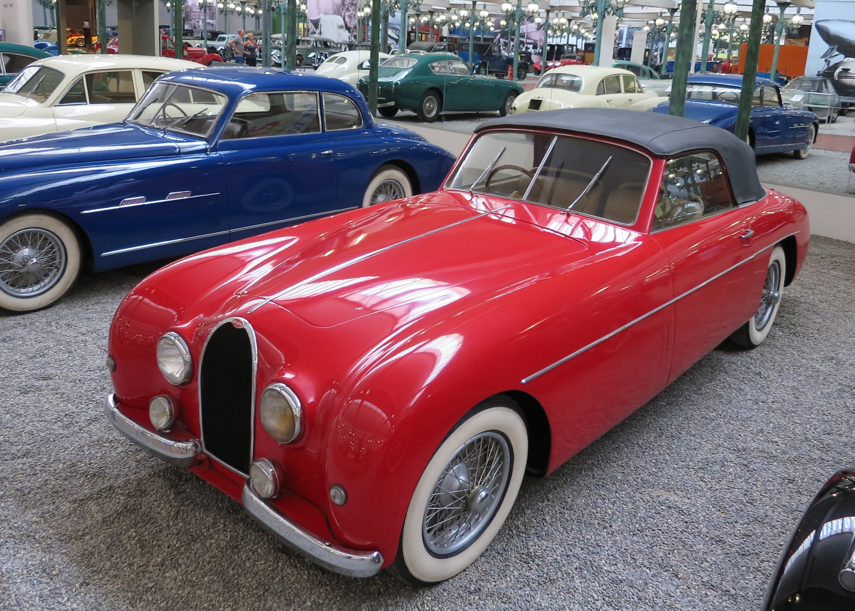 Bugatti Type 101 cabriolet (Country of origin: France)